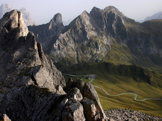 The view of Giau Pass from Mount Nuvolau in the Dolomites, Northern Veneto, Italy